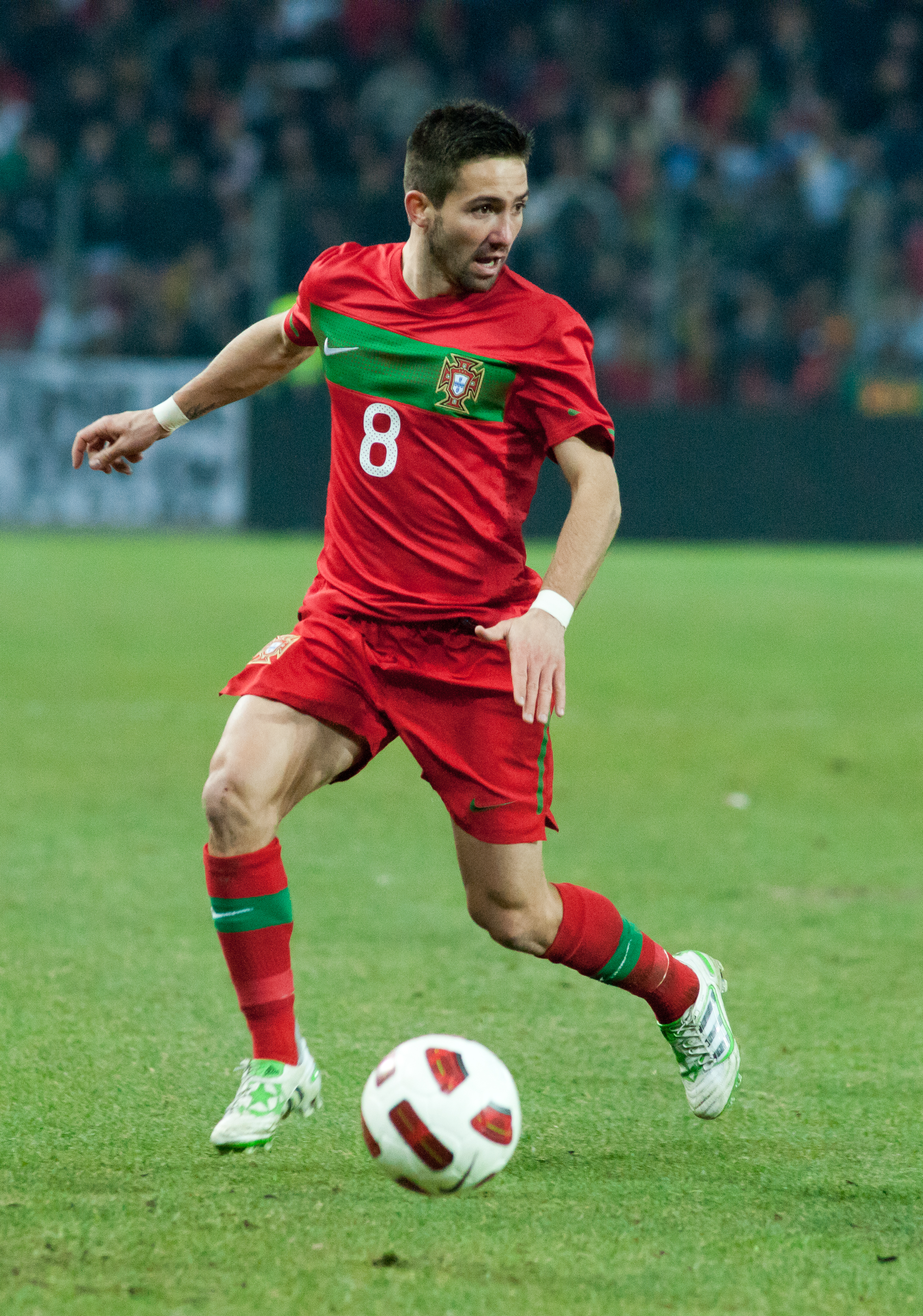 The making of this document was supported by Wikimedia CH. (Submit your project!) For all the files concerned, please see the category Supported by Wikimedia CH. Portugal vs. Argentina, 9th February 2011